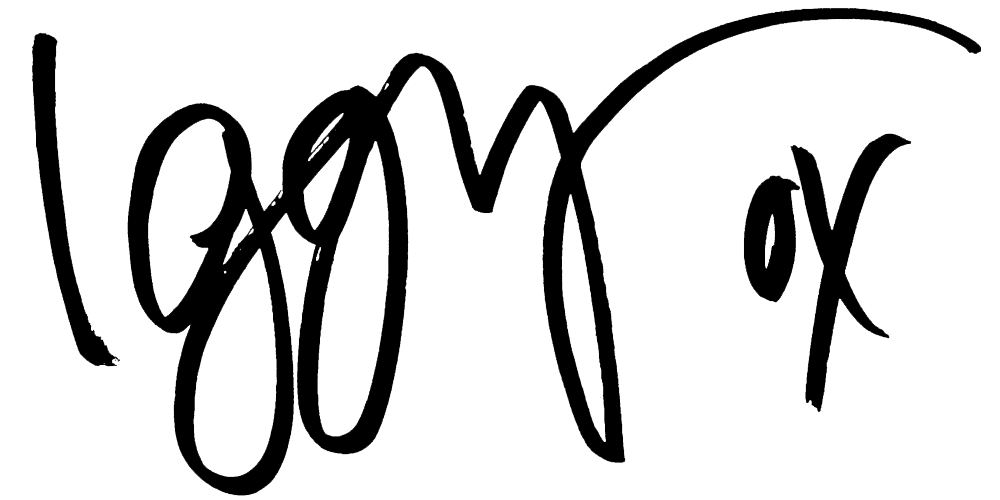 Signature of Iggy Azalea